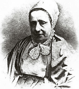 Portrait of educationist and Quaker biographer Susanna Corder (1787-1864)